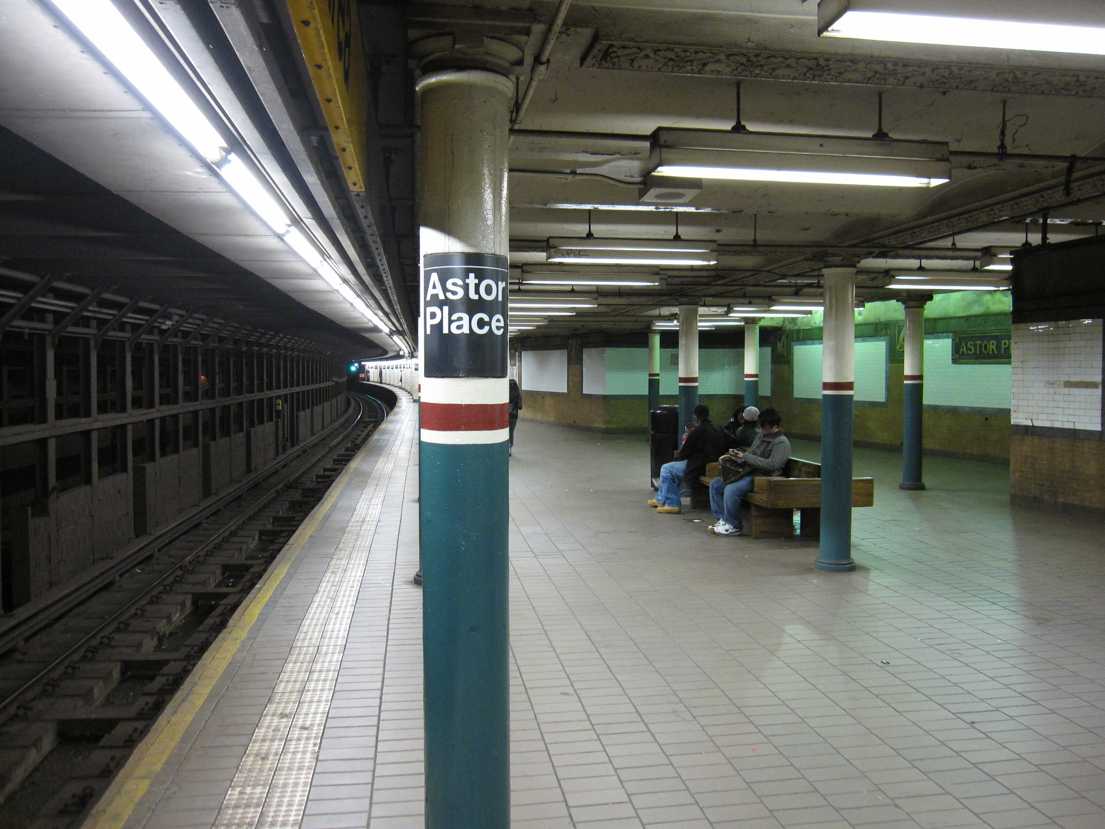 Astor Place (IRT Lexington Avenue Line)